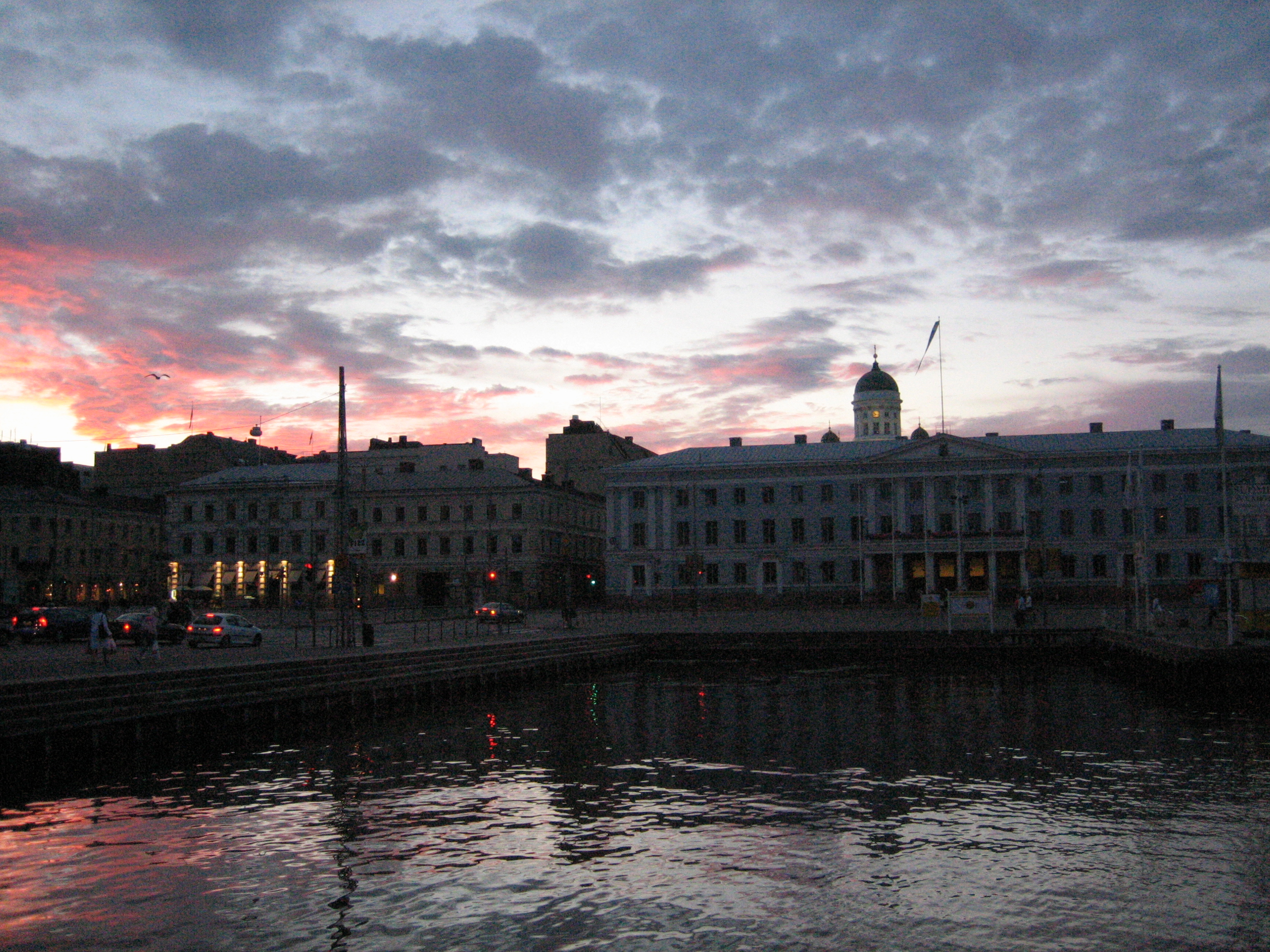 In the pic U can C part of the Helsinki Market Square and a slice of the dirty waters of the "Cholera Pool".